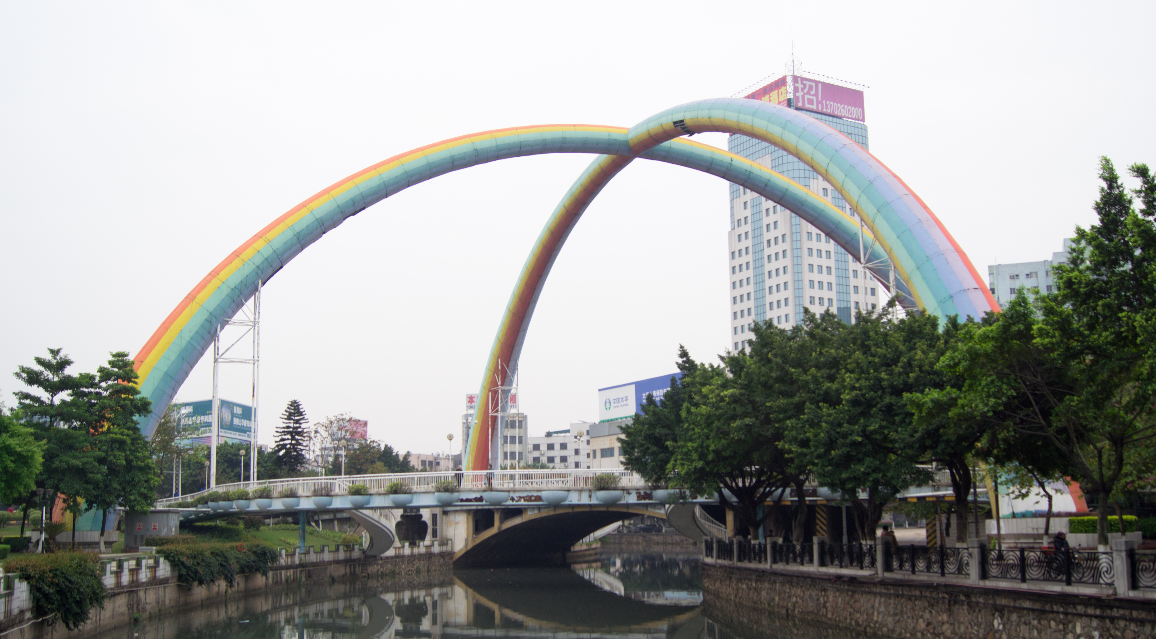 Rainbow Bridge at Daliang, Shunde.